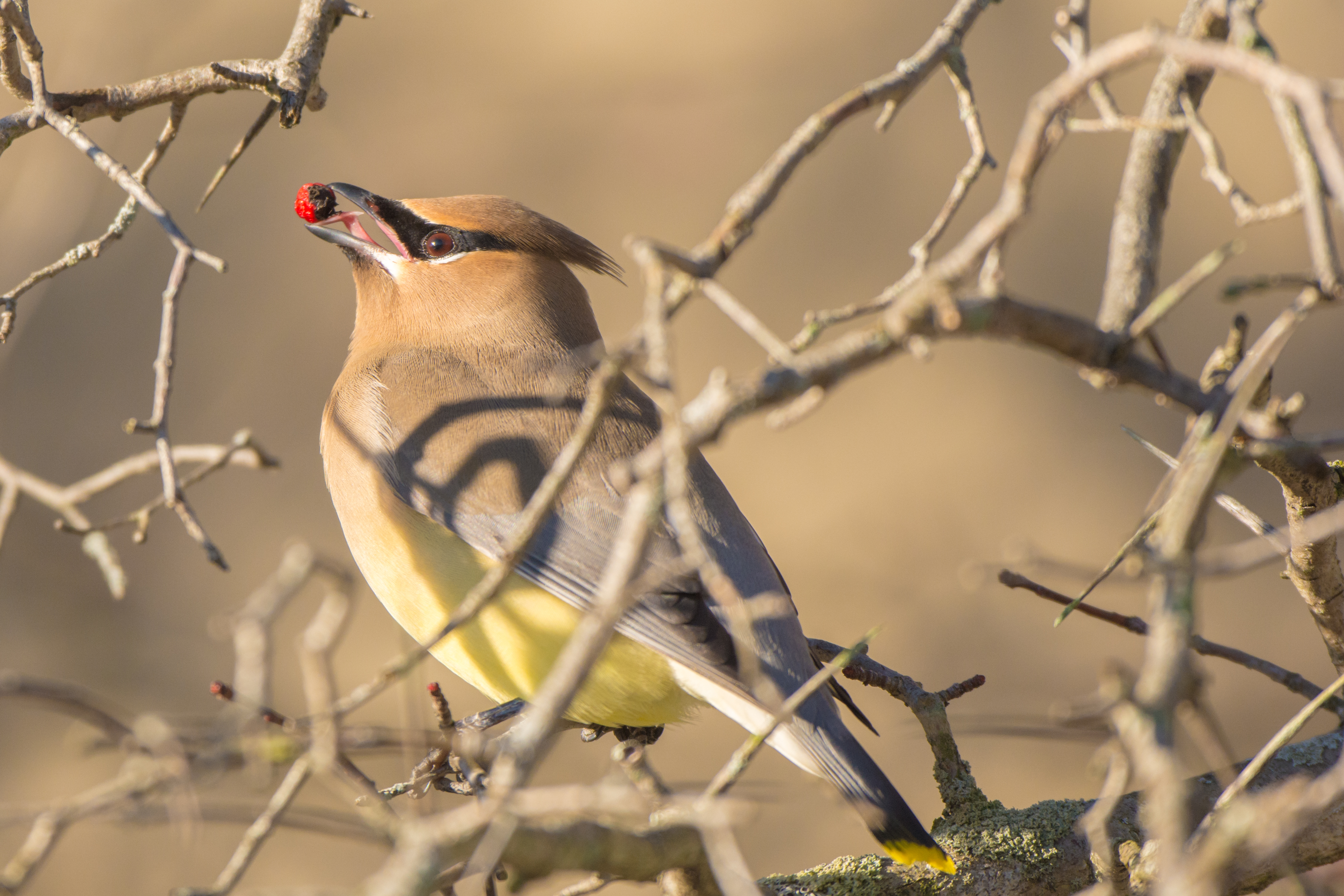 Post Office, Oxford, Ohio